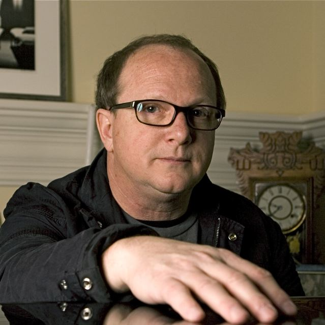 Tight, cropped pic of CP at piano